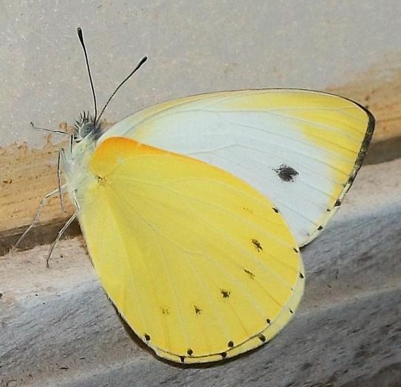 Dixeia pigea female side view, from Amanzimtoti, South Africa.